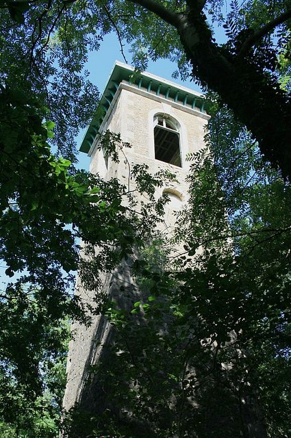 Brown's Folly The tower on Bathford Hill, once a prominent feature of the area is now almost overgrown by surrounding trees and difficult to see more than a few yards away. For site description and geology and for history etc